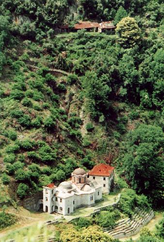 Lakkoskiti - Katholikon